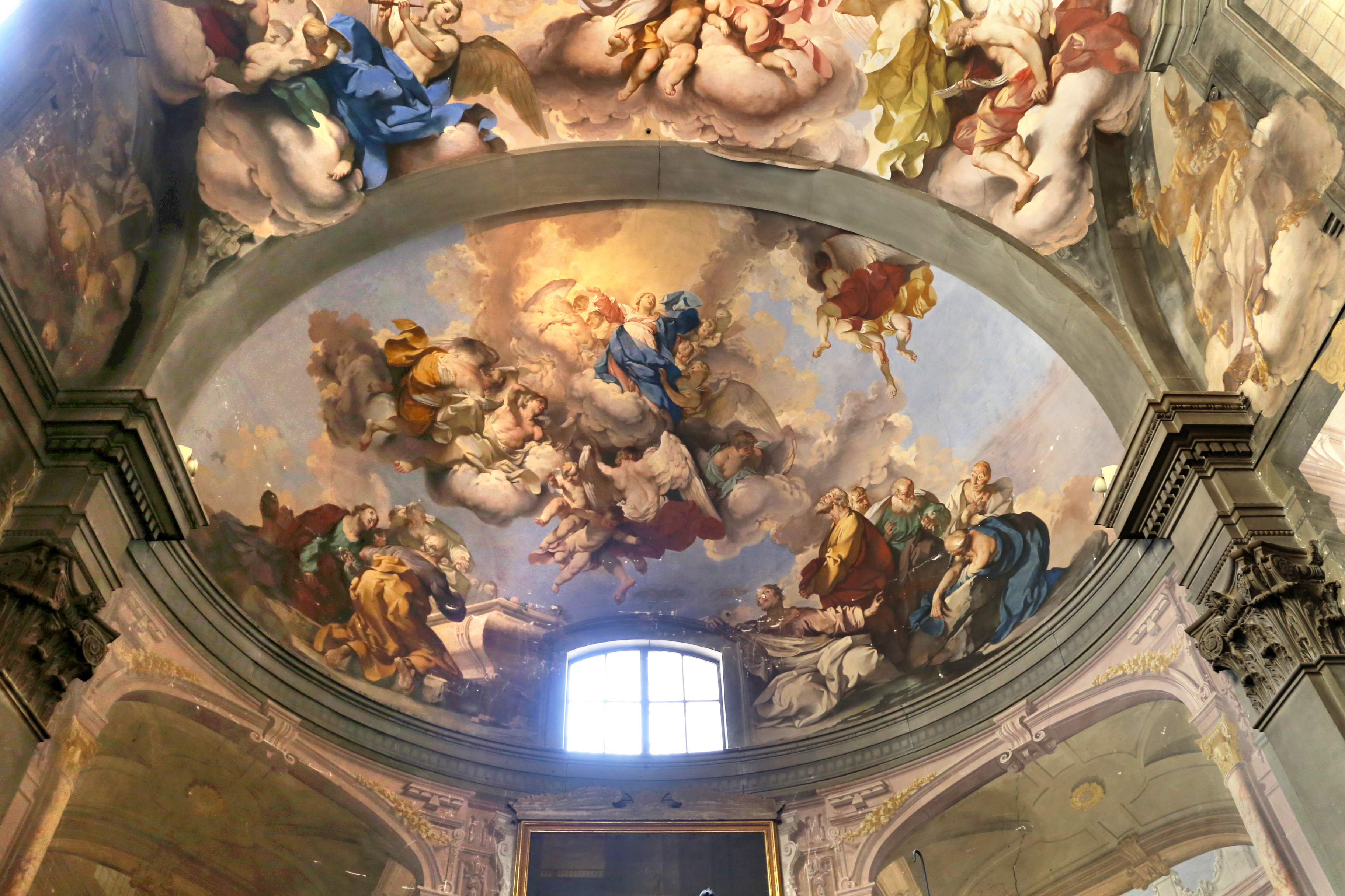 Badia fiorentina - Interior